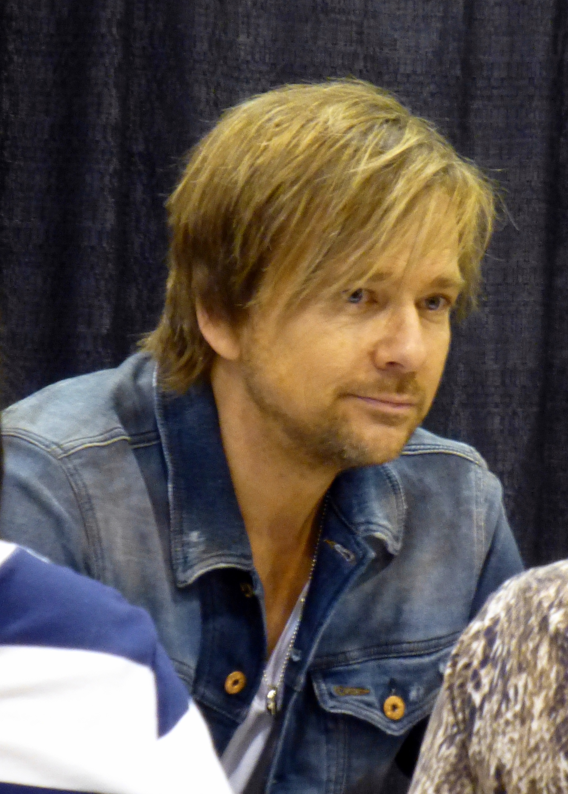 Flanery at the 2014 Wizard World in St Louis.